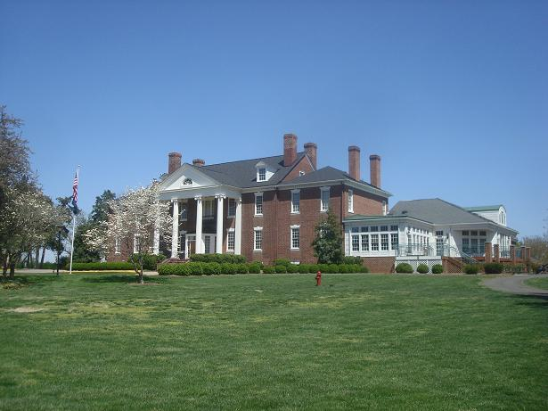 The plantation of Smithfield located in Spotsylvania County Virginia, four miles south of Fredericksburg. Current mansion constructed c. 1819 and is not the home of the Fredericksburg Country Club